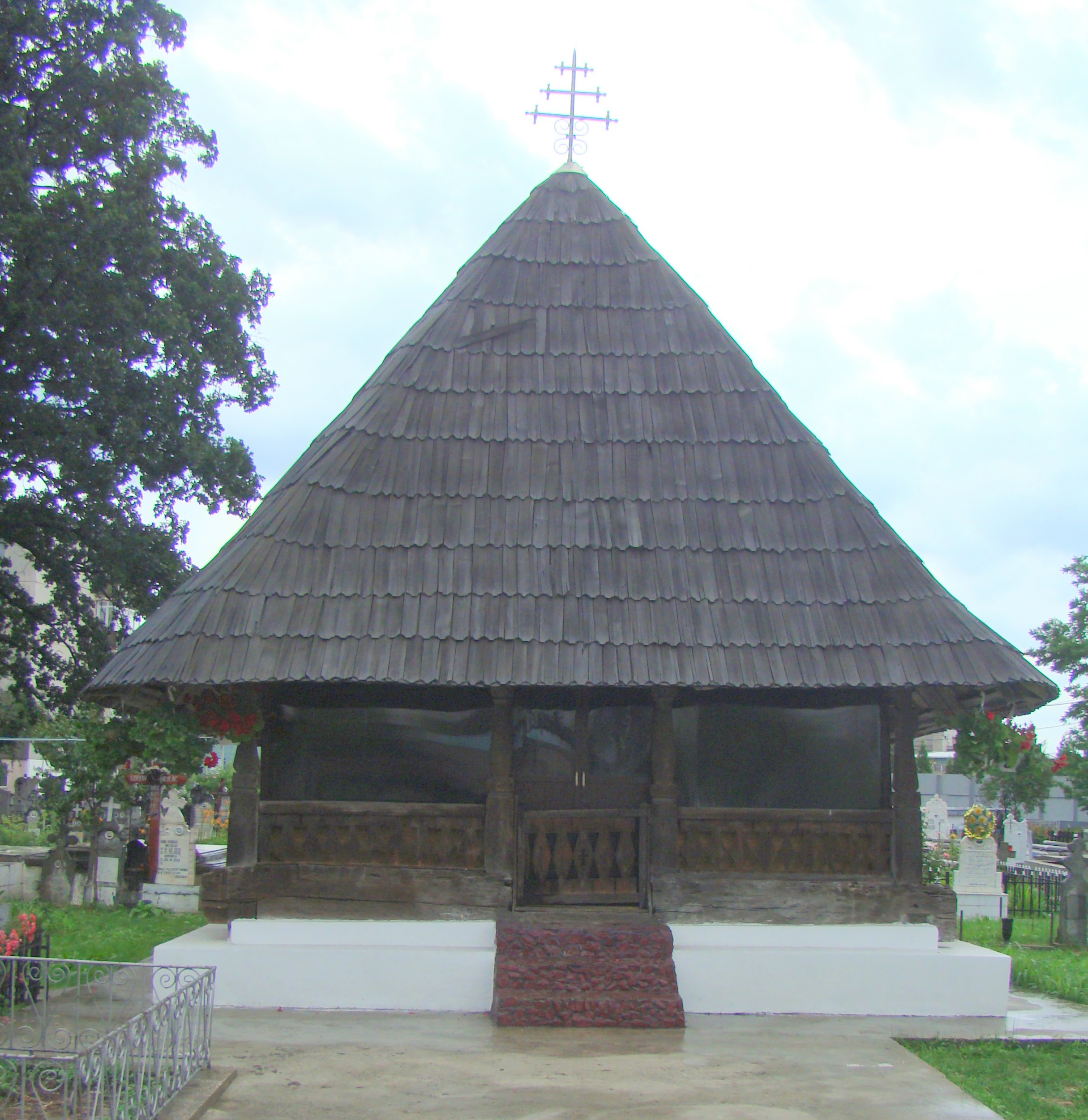 Wooden church in Rovinari, Gorj county, Romania